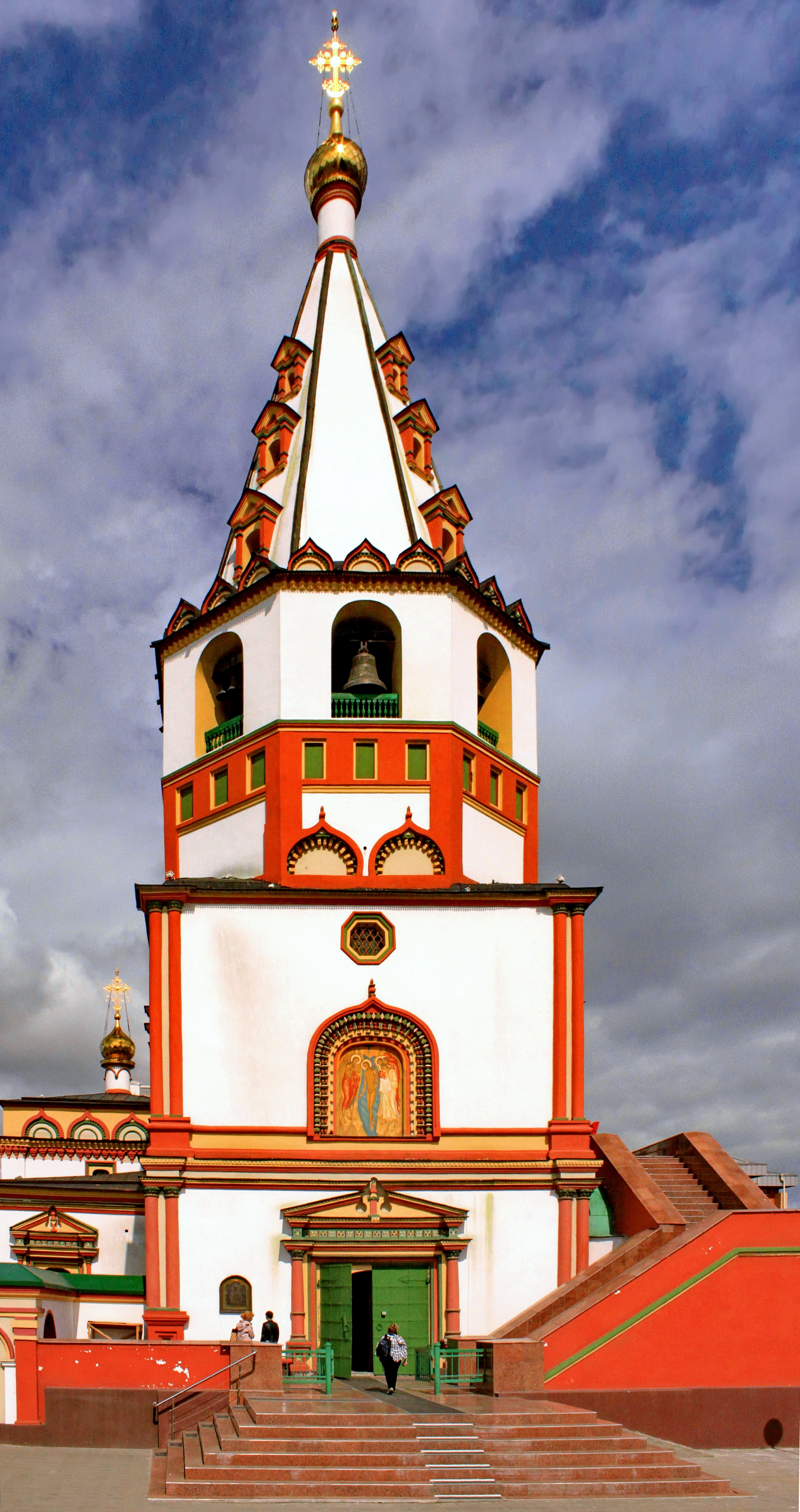 Church of the Epiphany. Irkutsk, Russia.